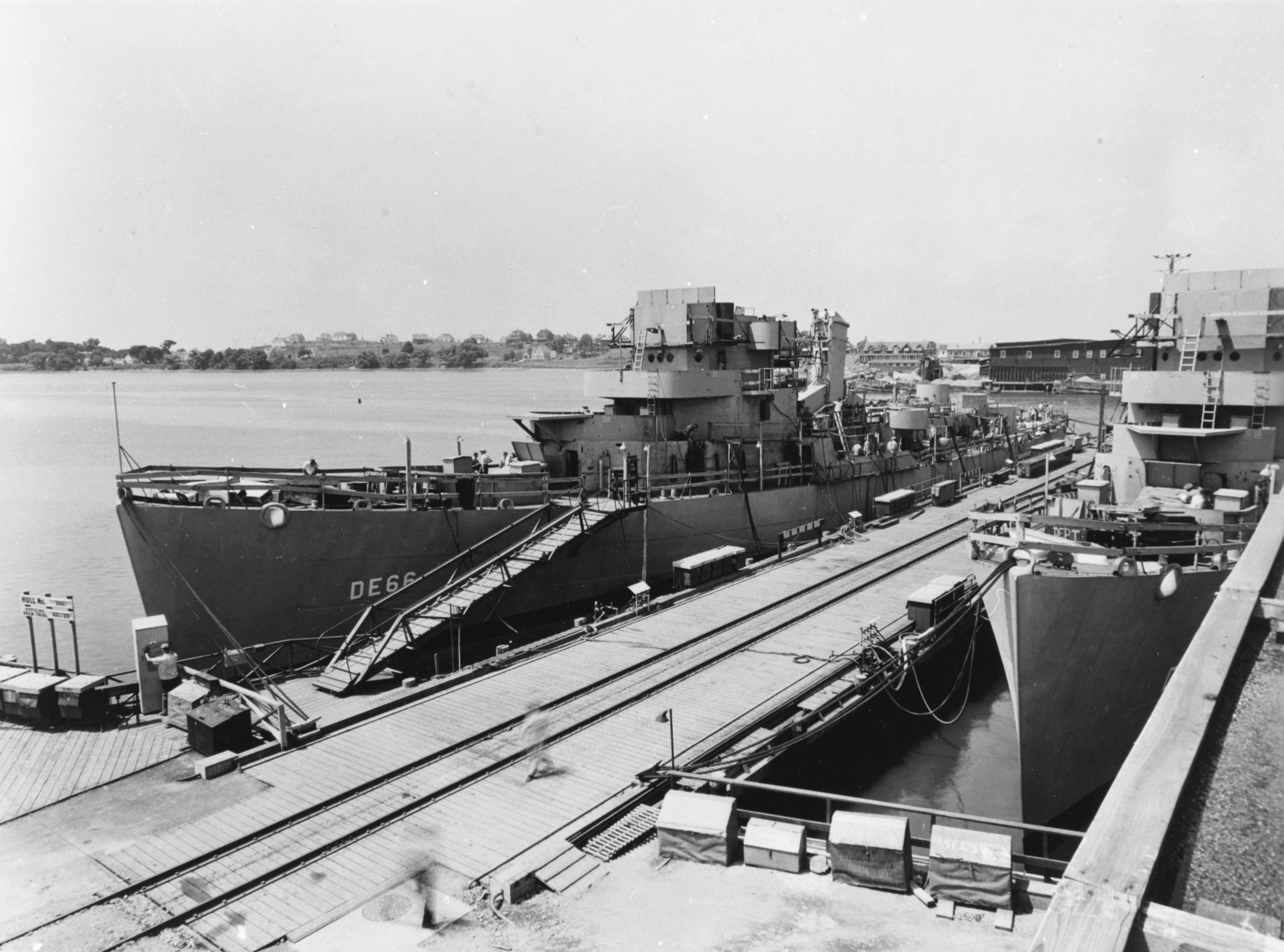 The U.S. Navy U.S. Navy destroyer escort USS Amesbury (DE-66) fitting out at the Bethlehem Hingham Shipyard, Massachusetts, on 6 July 1943. An unidentified sister ship fits out at right.